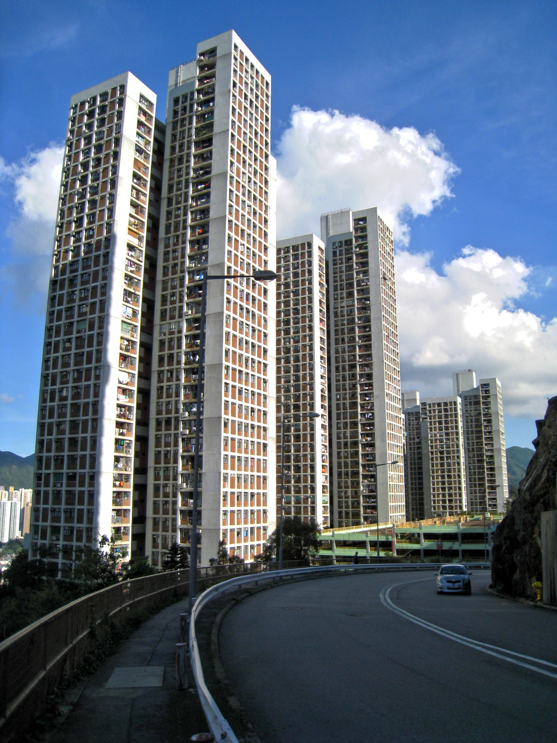 Sui Wo Court